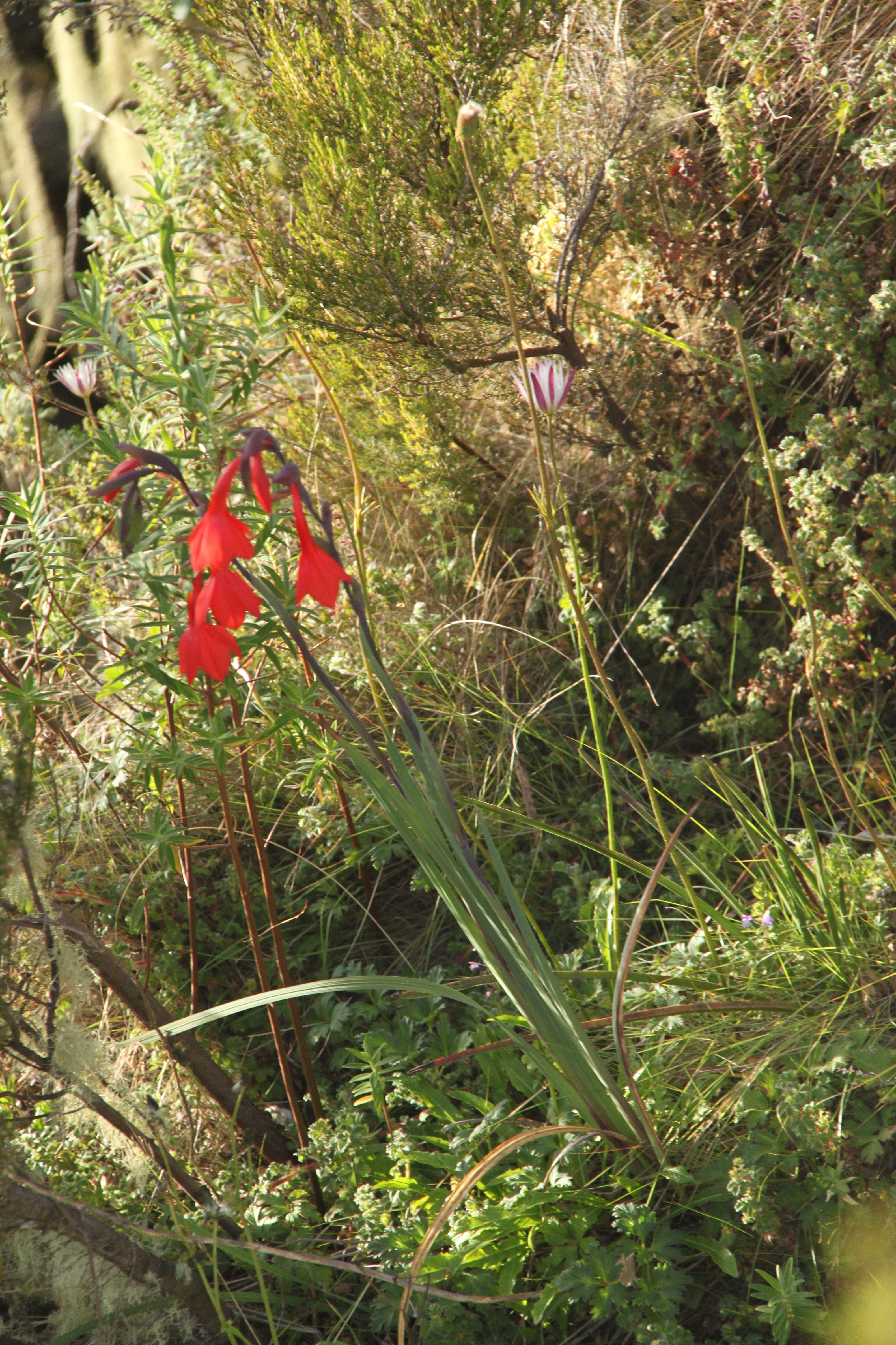 Red-flowered Gladiolus watsonioides, about 90 cm high, and white and purple flowered Anemone thomsonii, about 75 cm high, in the background, photographed along the Chogoria route, Mount Kenya, at approximately 3300 m altitude